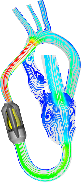 Simulation of a wave pump human ventricular assist device